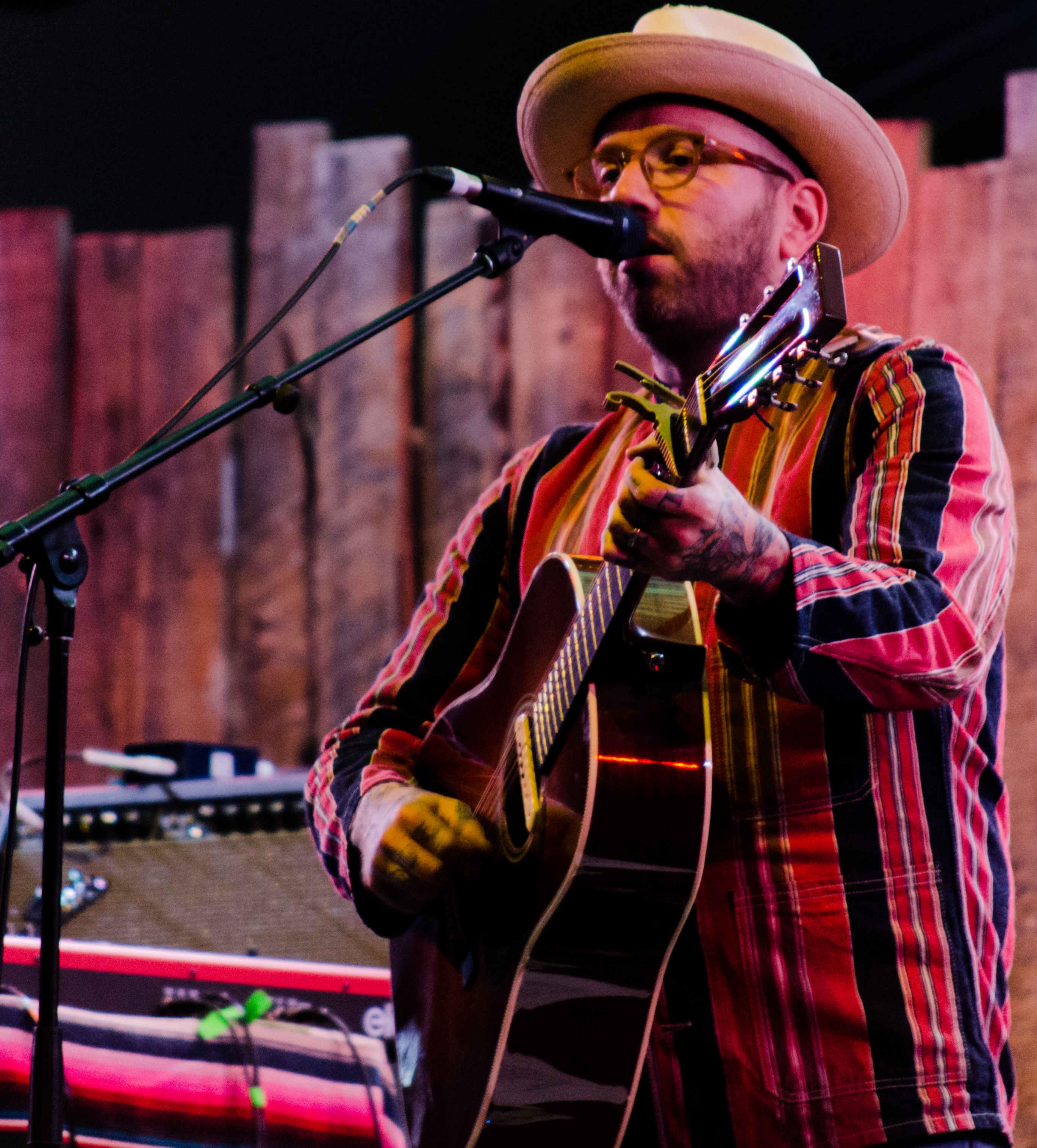 Dallas Green (performing as City and Colour) at the Winnipeg Folk Festival.